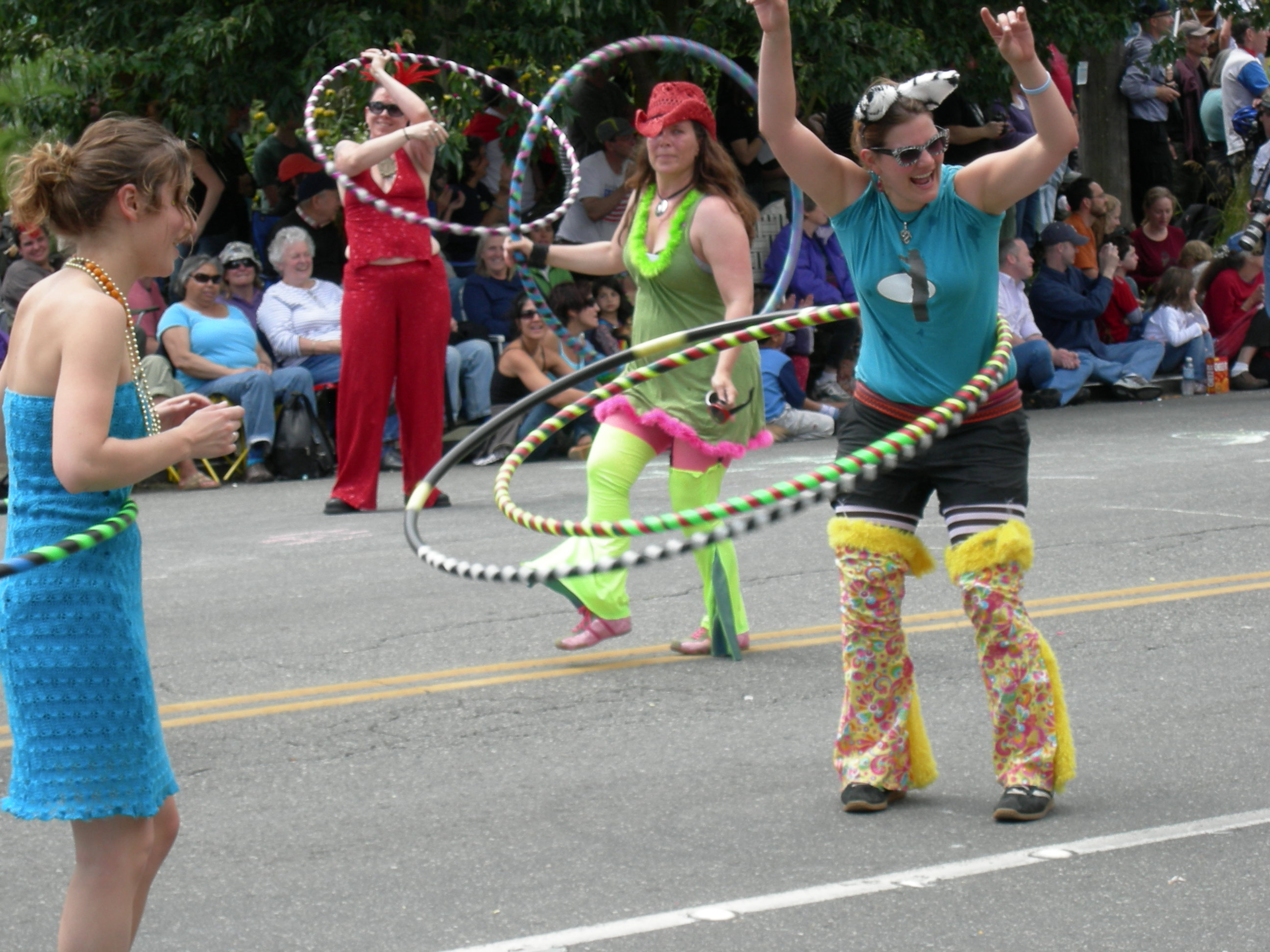 A hula hoop contingent in the 2007 Summer Solstice Parade, Fremont Fair, Seattle, Washington marched the route while "hula hooping"; they deliberately had an oversupply of hula hoops, and continually urged people in the viewing crowd to join them. Many did, at least briefly.